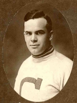 Alexander Romeril of the Toronto Granites hockey club in the 1921–1922 season.